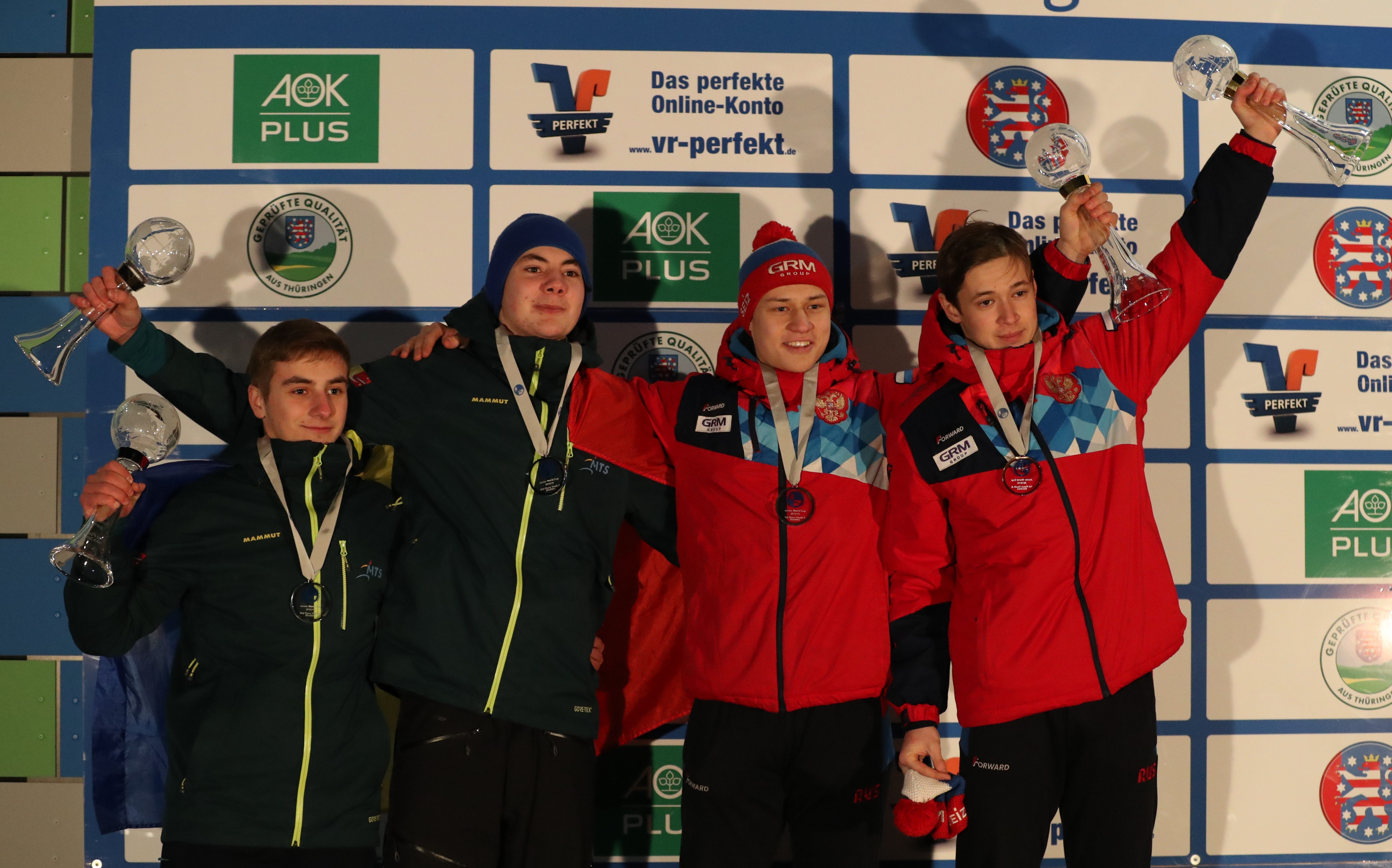 Fridays Victory Ceremonies at the 2018/19 Juniors and Youth A Luge World Cup in Oberhof